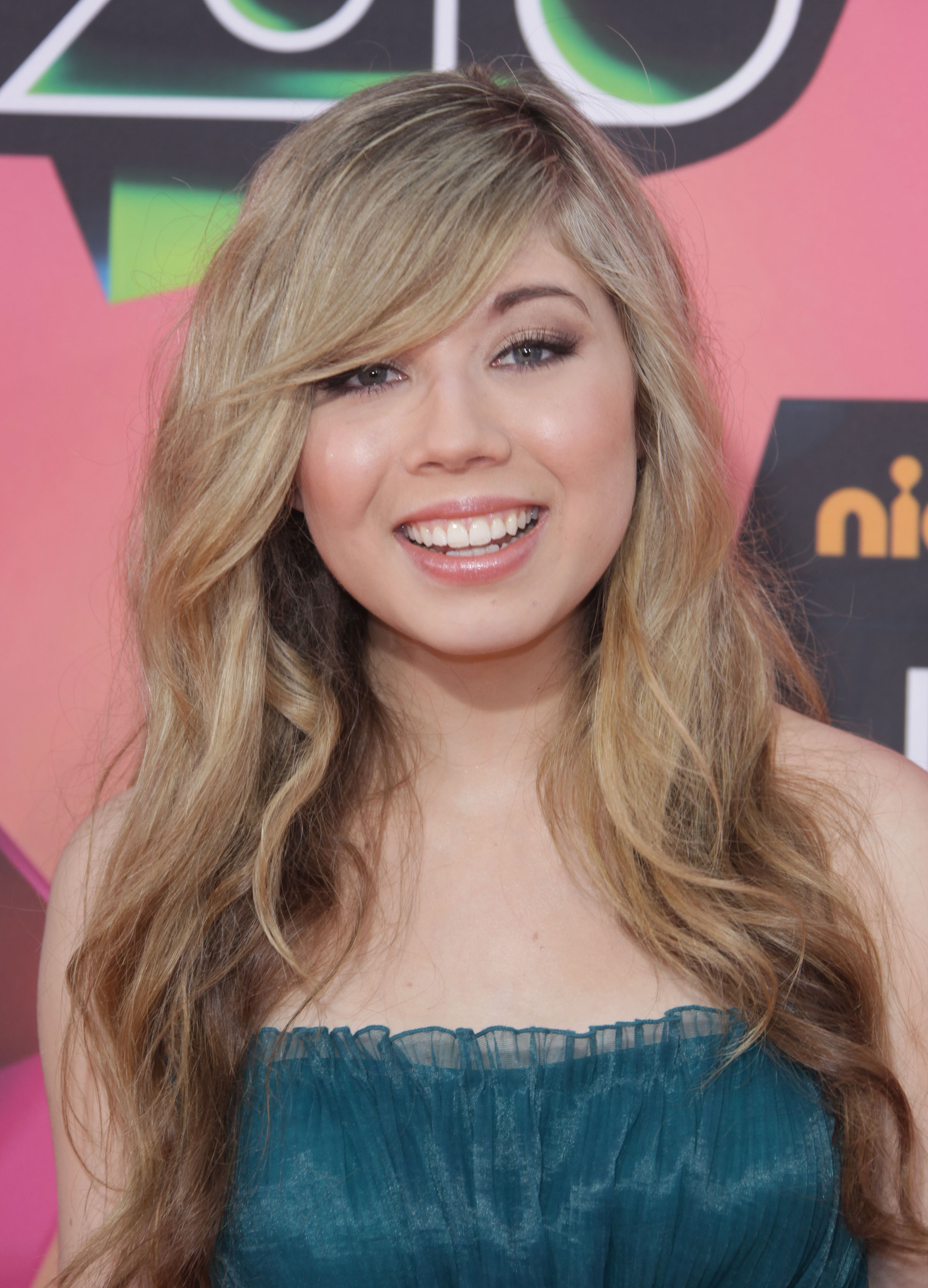 American actress Jennette McCurdy at the Nickelodeon Kids' Choice Awards.